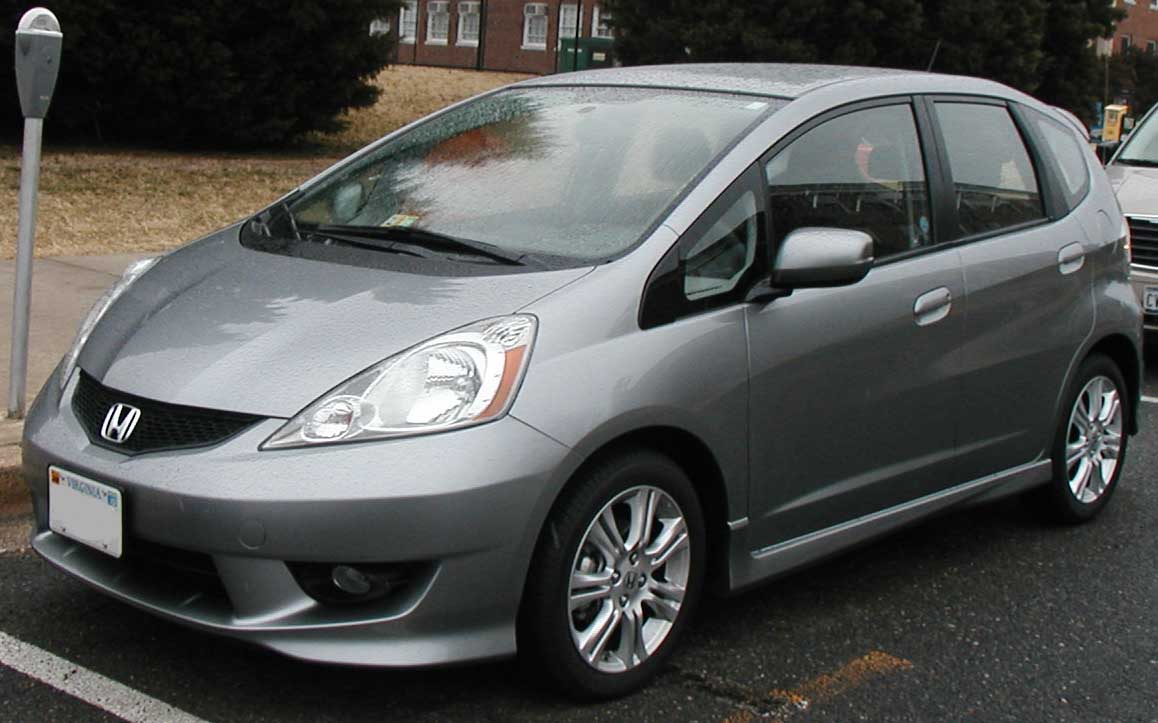 2009 Honda Fit photographed in College Park, Maryland, USA.